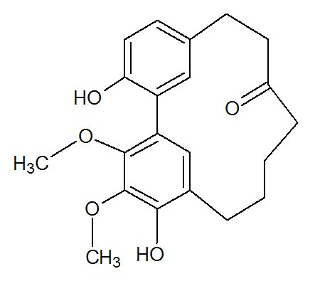 Chemical structure of myricanone